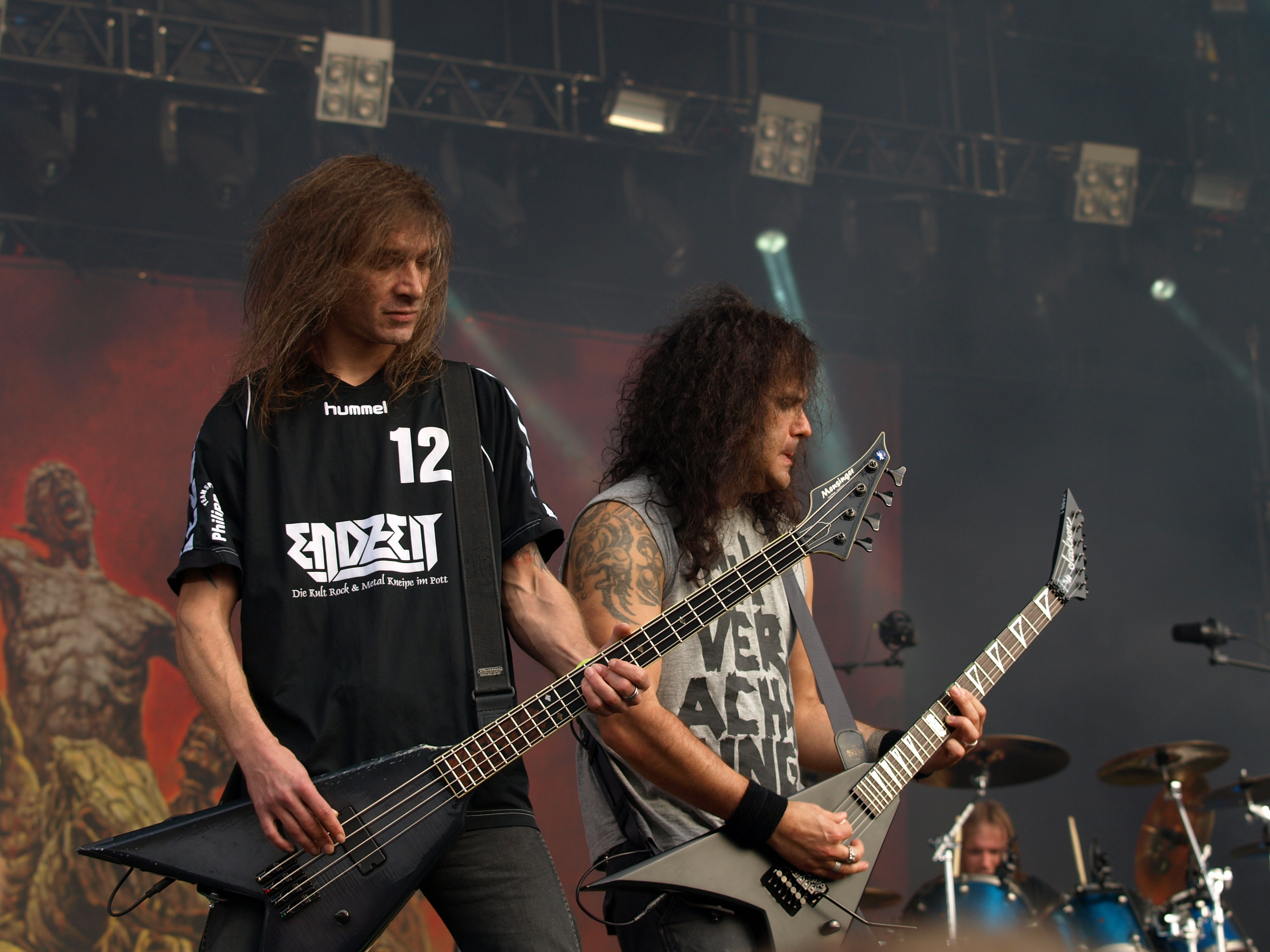 German thrash metal band Kreator live at Tuska Open Air 2013